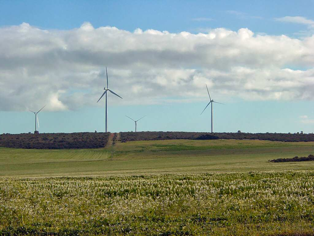 Photo taken and supplied by Brian Voon Yee Yap. Walkaway Wind Farm South East of Geraldton.